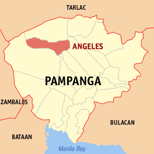 Map of Pampanga showing the location of Angeles